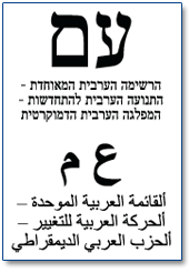 شارة ع م